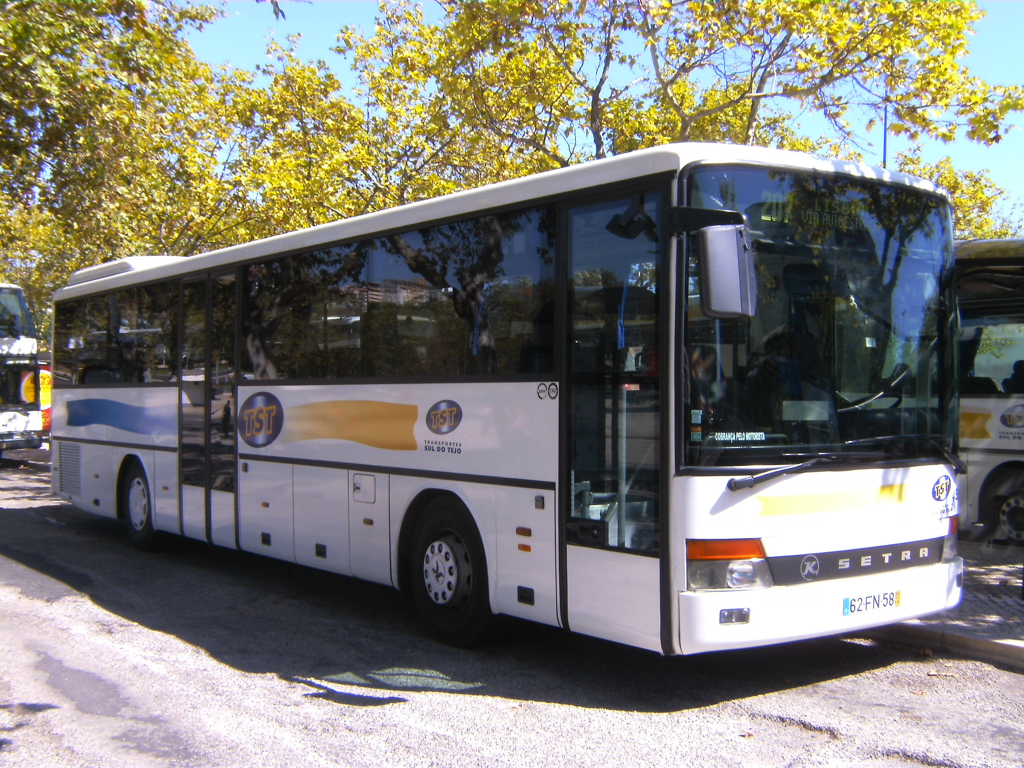 Setra bus from the company "Transportes Sul do Tejo" (TST), Lisbon, Praça Espanha.